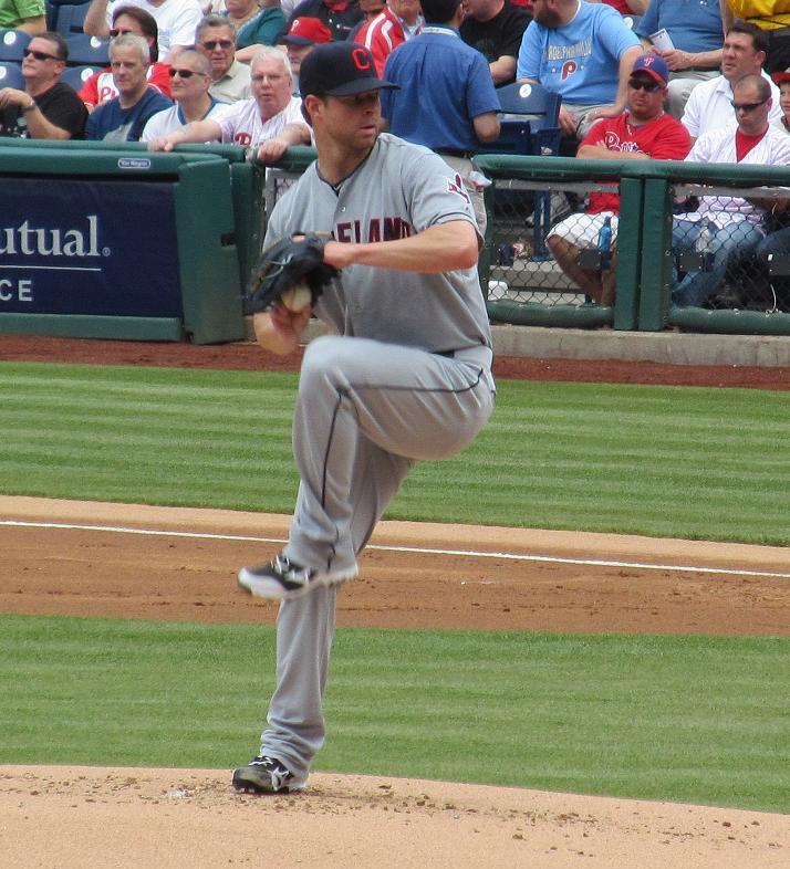 Corey Kluber Pitching in Philadelphia on May 15 2013